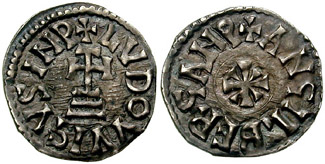 Lombards, Beneventum (nowdays Benevento. Adelchis, in the name of Louis II and Angilberga. 866-871. AR Denier (1.13 gm). +LVDOVVICVS INP, cross on steps +ANGILBERGA NP, cross with x. CNI XVIII pg. 185, 42; Biaggi 342; MEC 1116. Near EF for type. Rare.